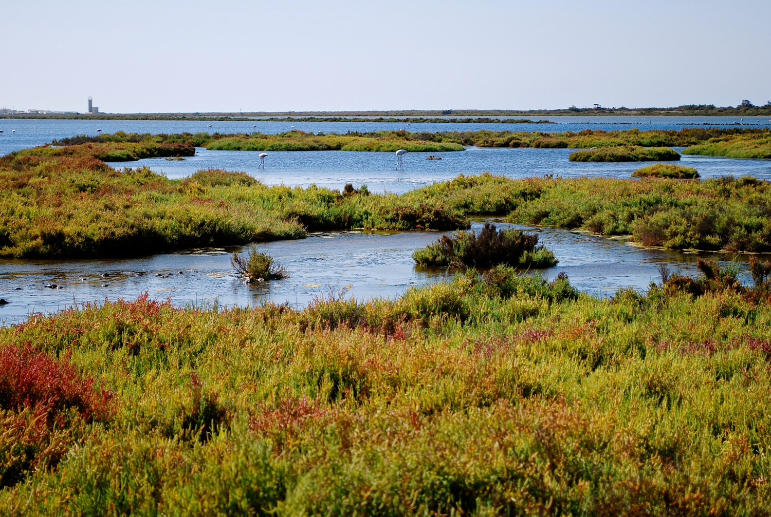 Las Salinas de Cabo de Gata showing Iglesia de San Miguel, an important landmark in the distance. You can also see the flamingoes for which Las Salinas are famous for.